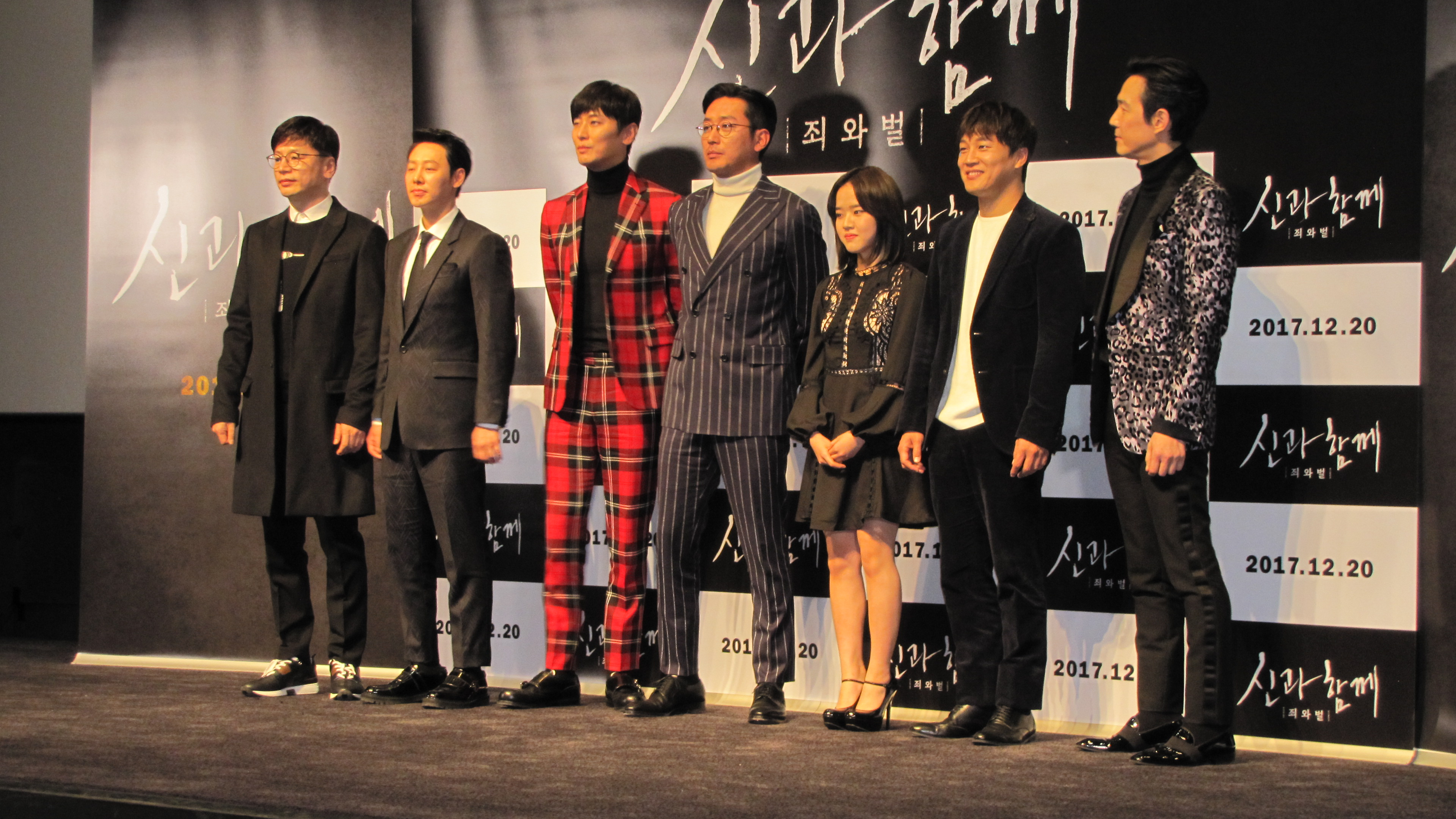 영화 '신과 함께' 죄 와 벌 20일 개봉